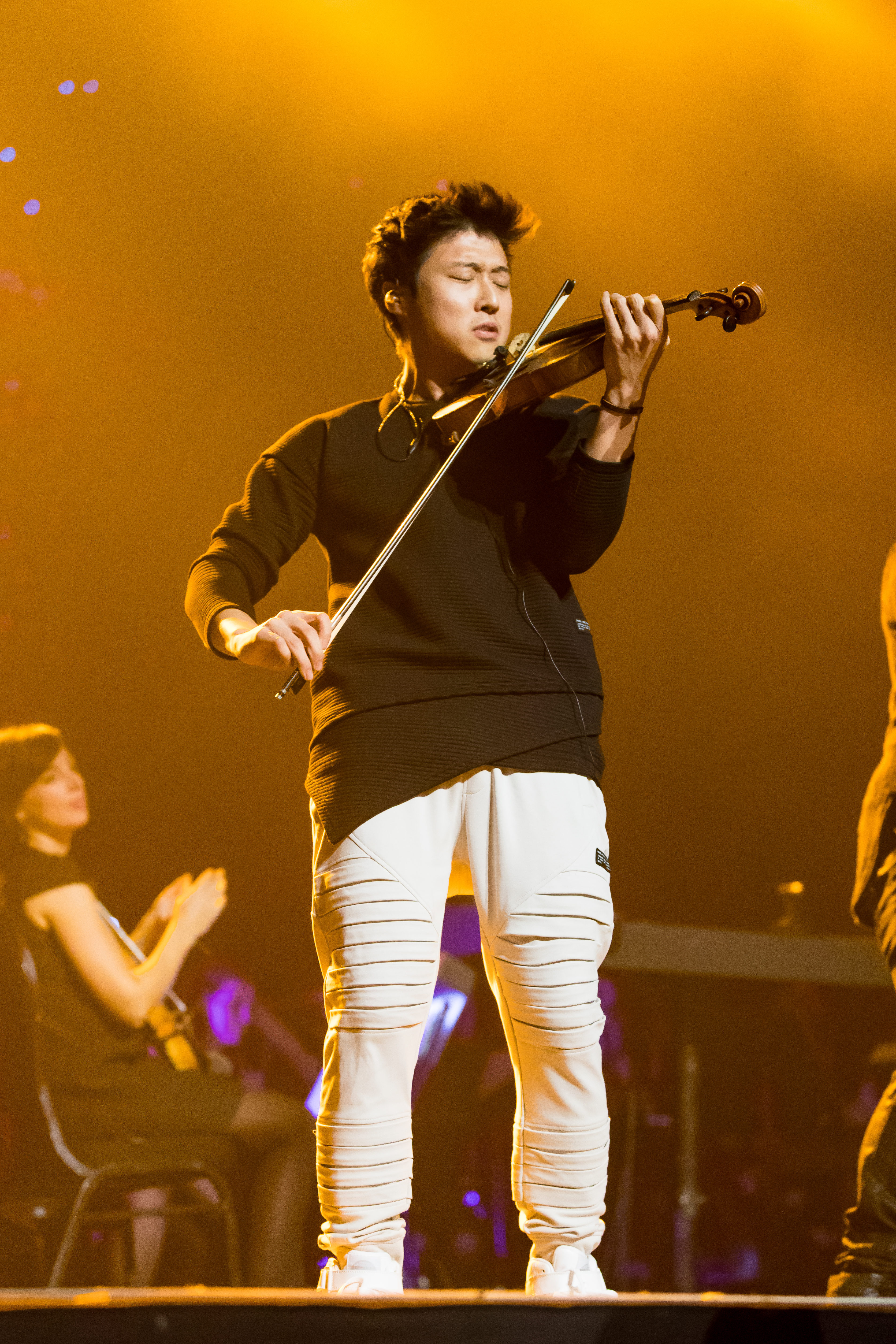 Time For Three during Night of the Proms at SAP Arena, Mannheim, Baden Württemberg, Germany on 2016-11-25, Photo: Sven Mandel Simple Minds, Natasha Bedingfield, Stefanie Heinzmann, John Miles, Ronan Keating, Time For Three